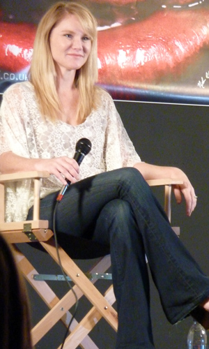 Tara Buck at a Showmasters Convention in 2012